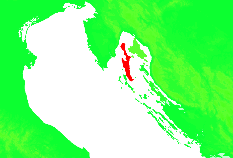 Island of Croatia Croatia - Cres.PNG